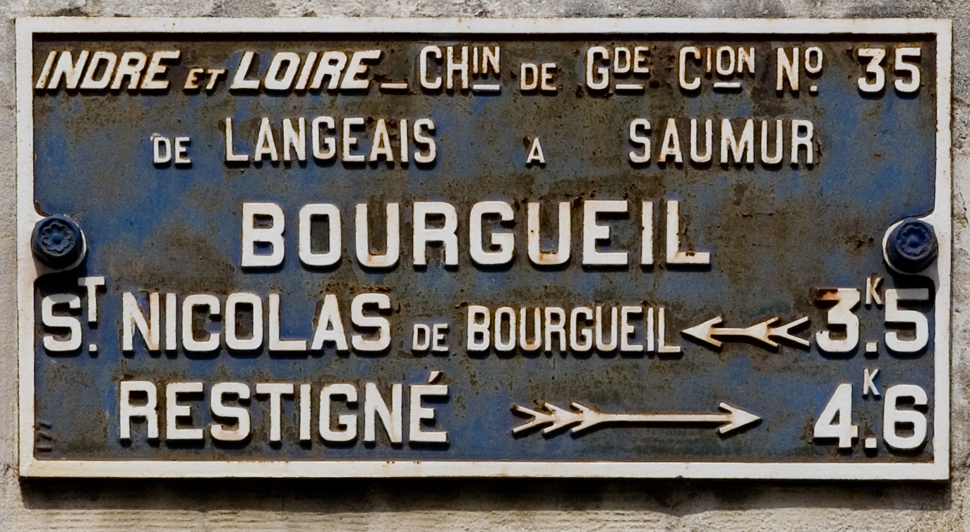 Showing the distance to other Loire Valley wine regions